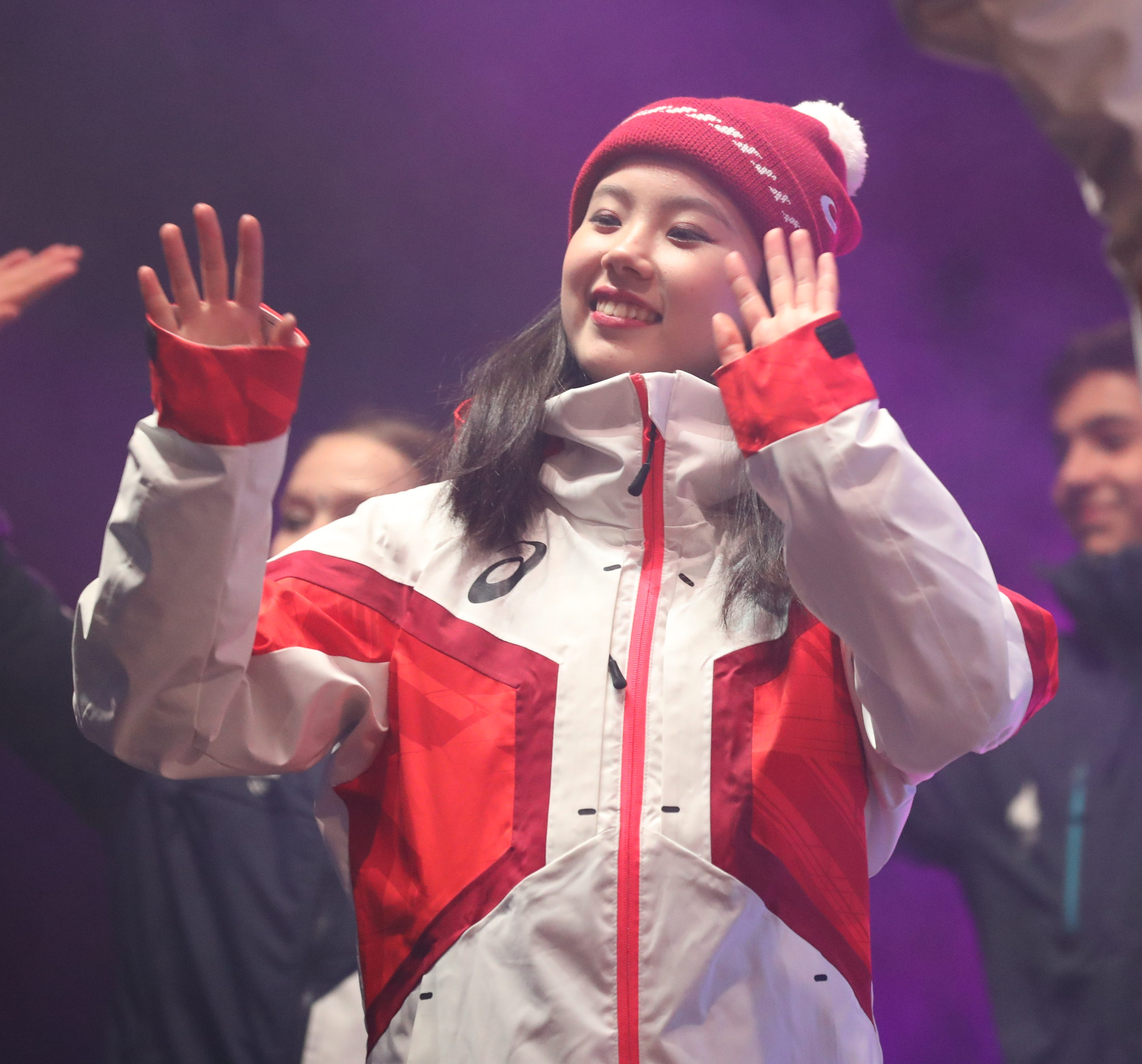 Medal Ceremony Day 6, 2020 Winter Youth Olympics in Lausanne